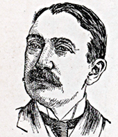 George P. Lawrence, US Representative from Massachusetts